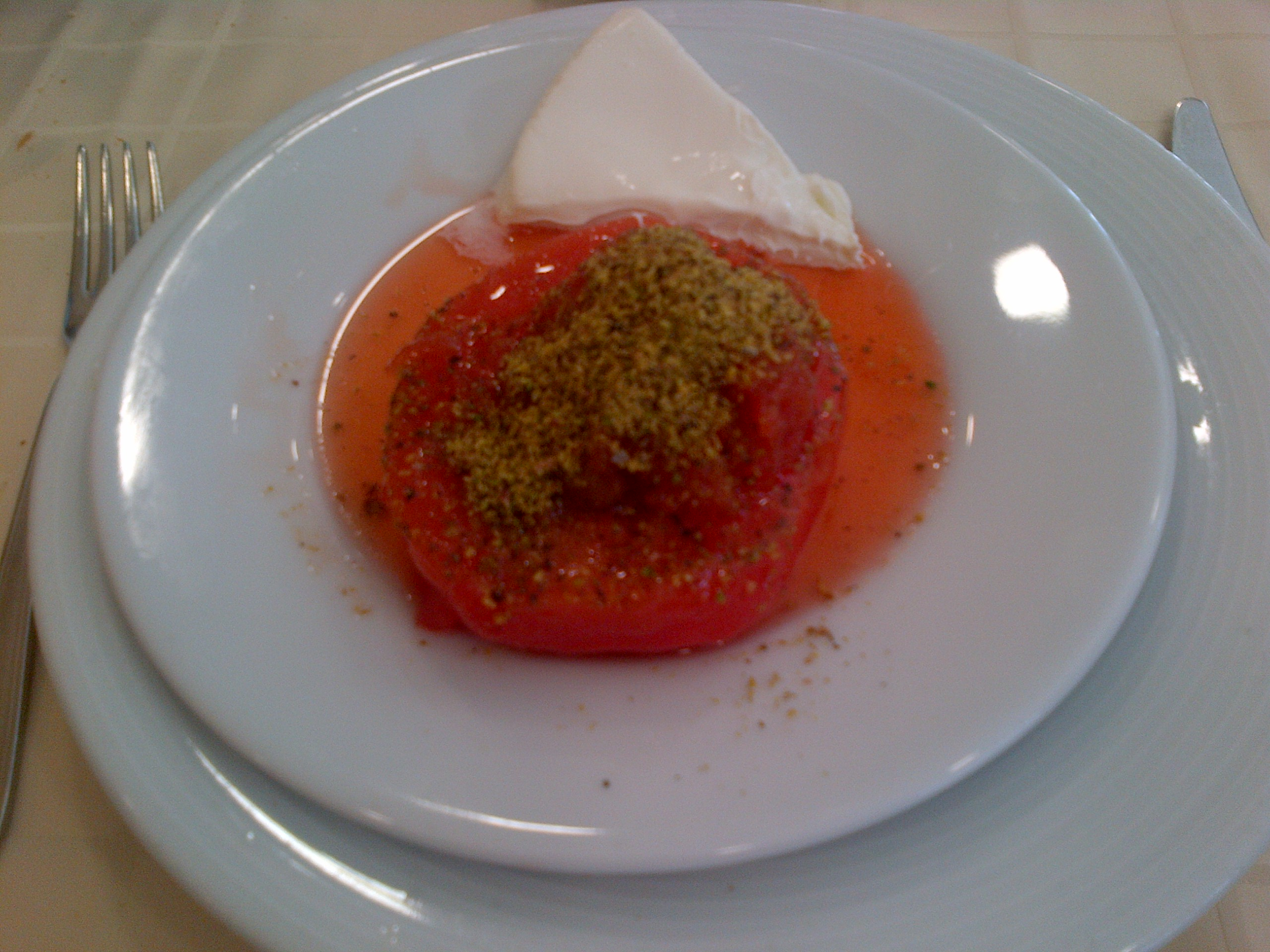 Ayva tatlısı with kaymak at the "Boğaziçi Lokantası" (restaurant) in Ulus, Ankara.